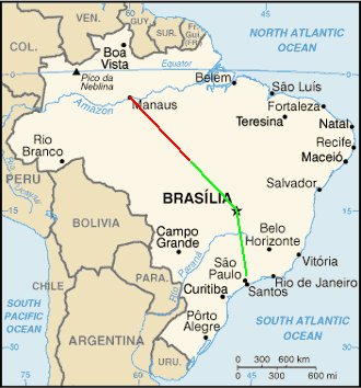 Map of Brazil showing the presumed flight paths of Gol Transportes Aéreos Flight 1907 and the Embraer Legacy 600 aircraft that it collided with to the crash site (source: CENIPA Final report) Red line = Gol Transportes Aéreos Flight 1907's flight path Green line = Embraer Legacy 600's flight path )